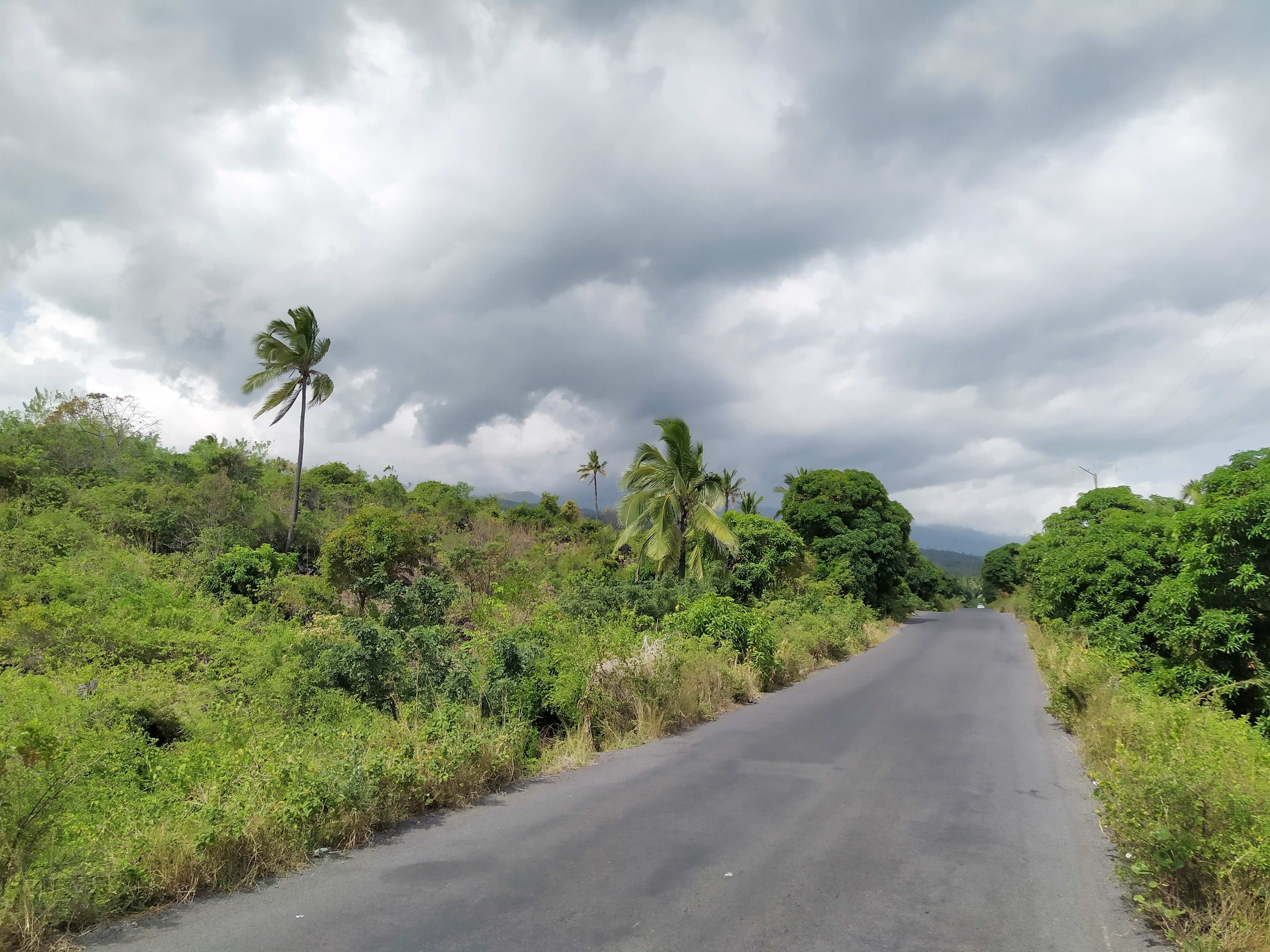 Main road going around the island of Grand Comore, Comoros